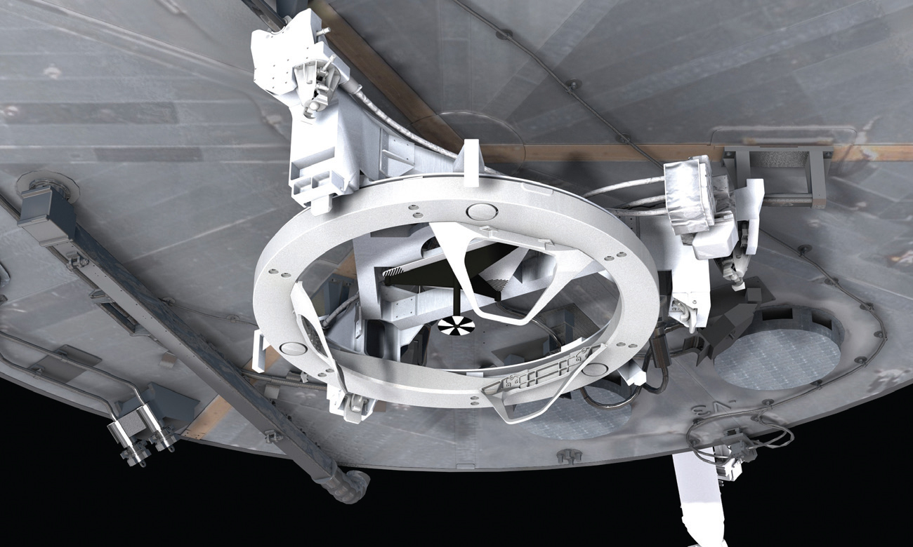 When the Hubble Space Telescope reaches the end of its life, NASA will need to de-orbit it safely using a next-generation space transportation vehicle. The Soft Capture Mechanism (SCM) uses a Low Impact Docking System (LIDS) interface and associated relative navigation targets for future rendezvous, capture, and docking operations. The system's LIDS interface is designed to be compatible with the rendezvous and docking systems to be used on the next-generation space transportation vehicle. During the mission, astronauts will attach the SCM to Hubble. About 72 inches in diameter and 2 feet high, the SCM will sit on the bottom of Hubble, inside the FSS berthing and positioning ring, without affecting the normal FSS-to-Hubble interfaces. It will be attached onto the telescope by three sets of jaws that clamp onto the existing berthing pins on Hubble’s aft bulkhead.